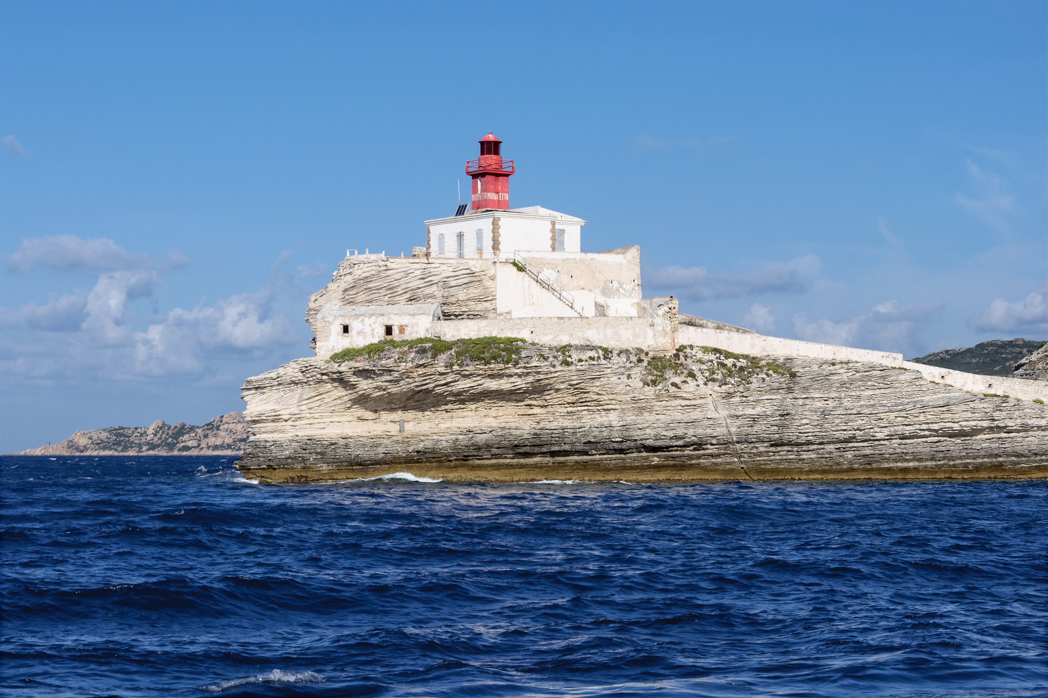 La Madonetta lighthouse at the narrow entrance to the harbour of Bonifacio, Corsica, France.